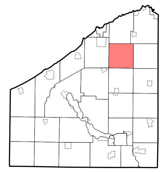 Map of Chautauqua County highlighting Town of Arkwright Made using Cartographic Boundary Shapefiles from U.S. Census Bureau [1]